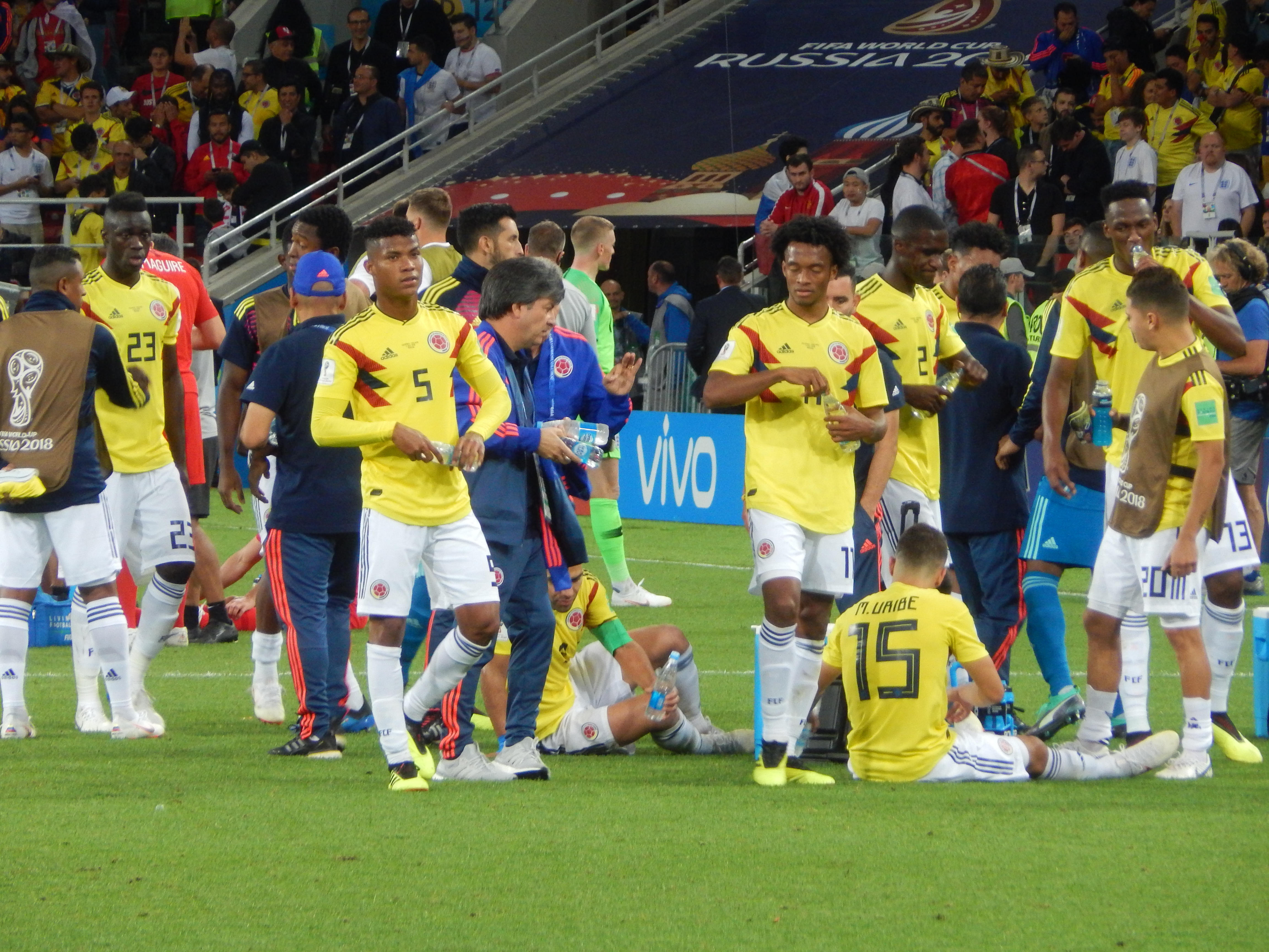 FIFA World Cup 2018, Round of 16, Colombia vs. England